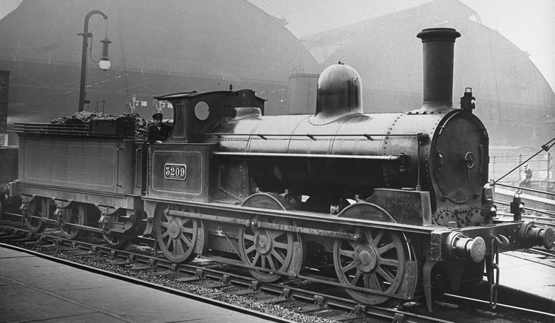 London and North Western Railway Webb 17in Coal Engine no 3209 at Manchester London Road (later Piccadilly) railway station